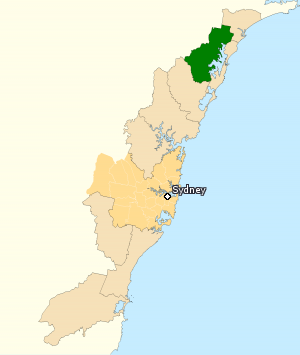 This image incorporates data that is: © Commonwealth of Australia (Australian Electoral Commission) 2009 Division of Charlton 2010